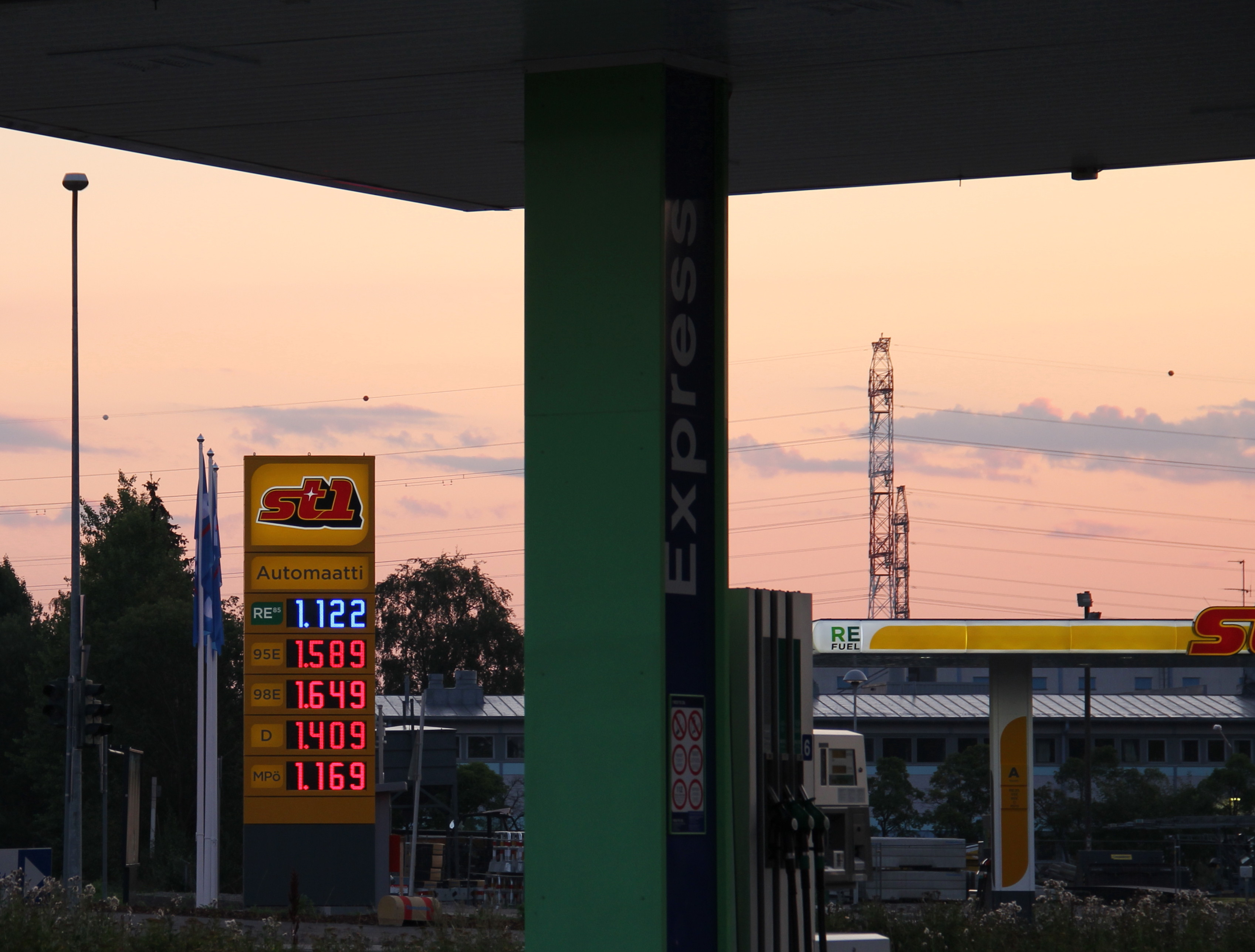 St1 petrol station in Suutarila, Helsinki, Finland seen through Neste Oil petrol station.